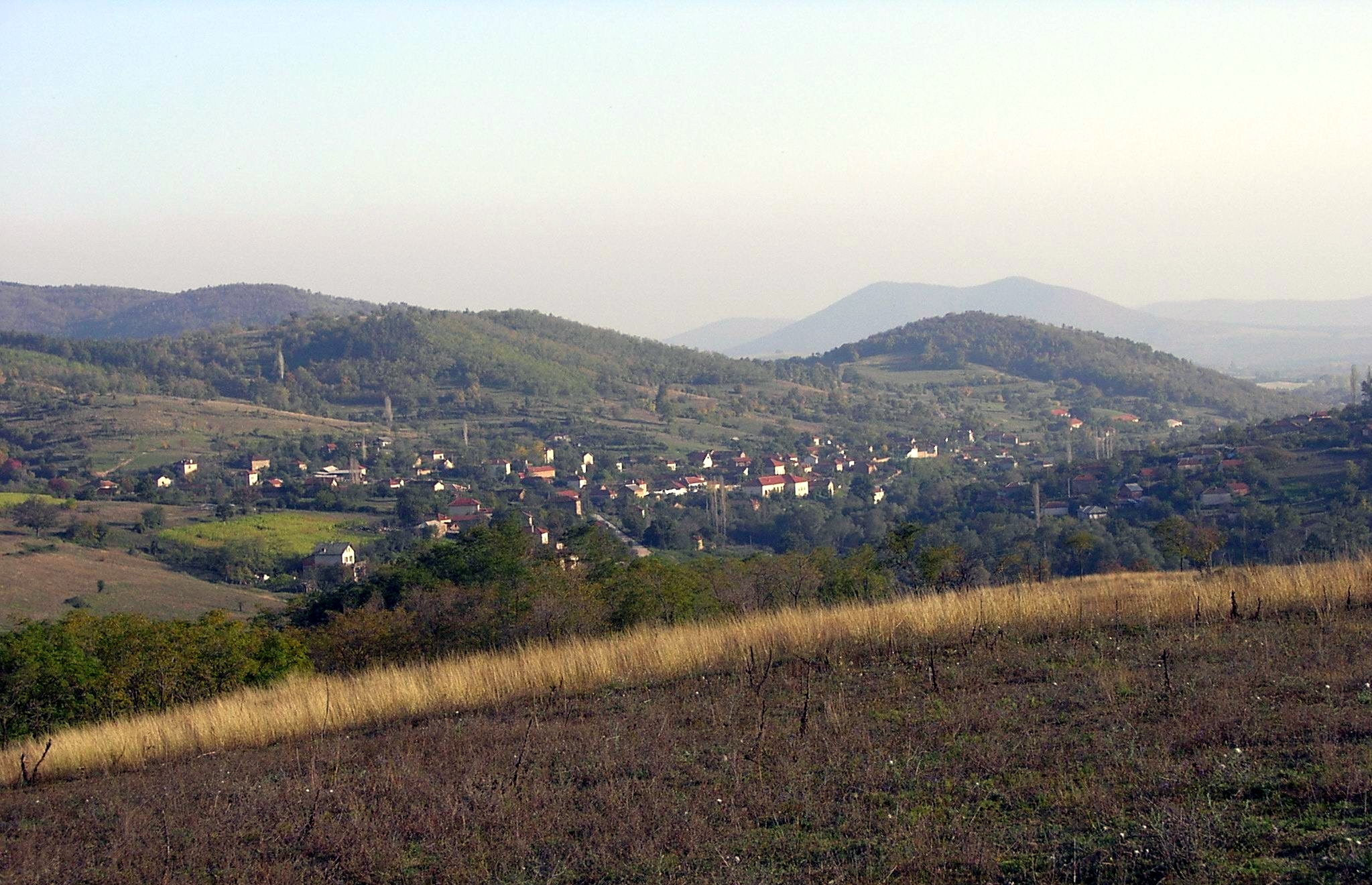 s.Pystrovo-general view 02